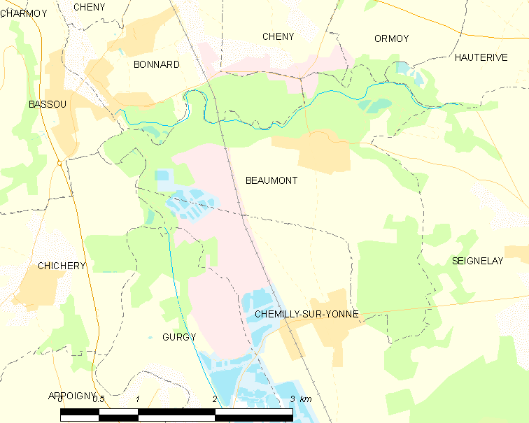 Map of French municipality Beaumont